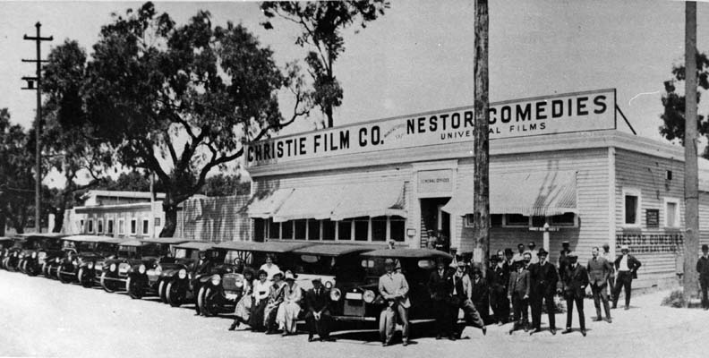 Nestor Studios. The first motion picture studio in Hollywood was built by David Horseley for Christie Film Co. Automobiles are lined up at Sunset Blvd., with Gower Street at right. The sign above the building reads "Christie Film Co.", and "Nestor Comedies, Universal Films." The photo includes Charles Christie, Horace Davey, Al Christie, Nadgi, head cameraman; George French, Gus Alexander, Harry Rattenburg, Lee Moran, Eddie Lyons, Billie Rhodes, and Eddie Barry. The photograph is signed "Witzel."